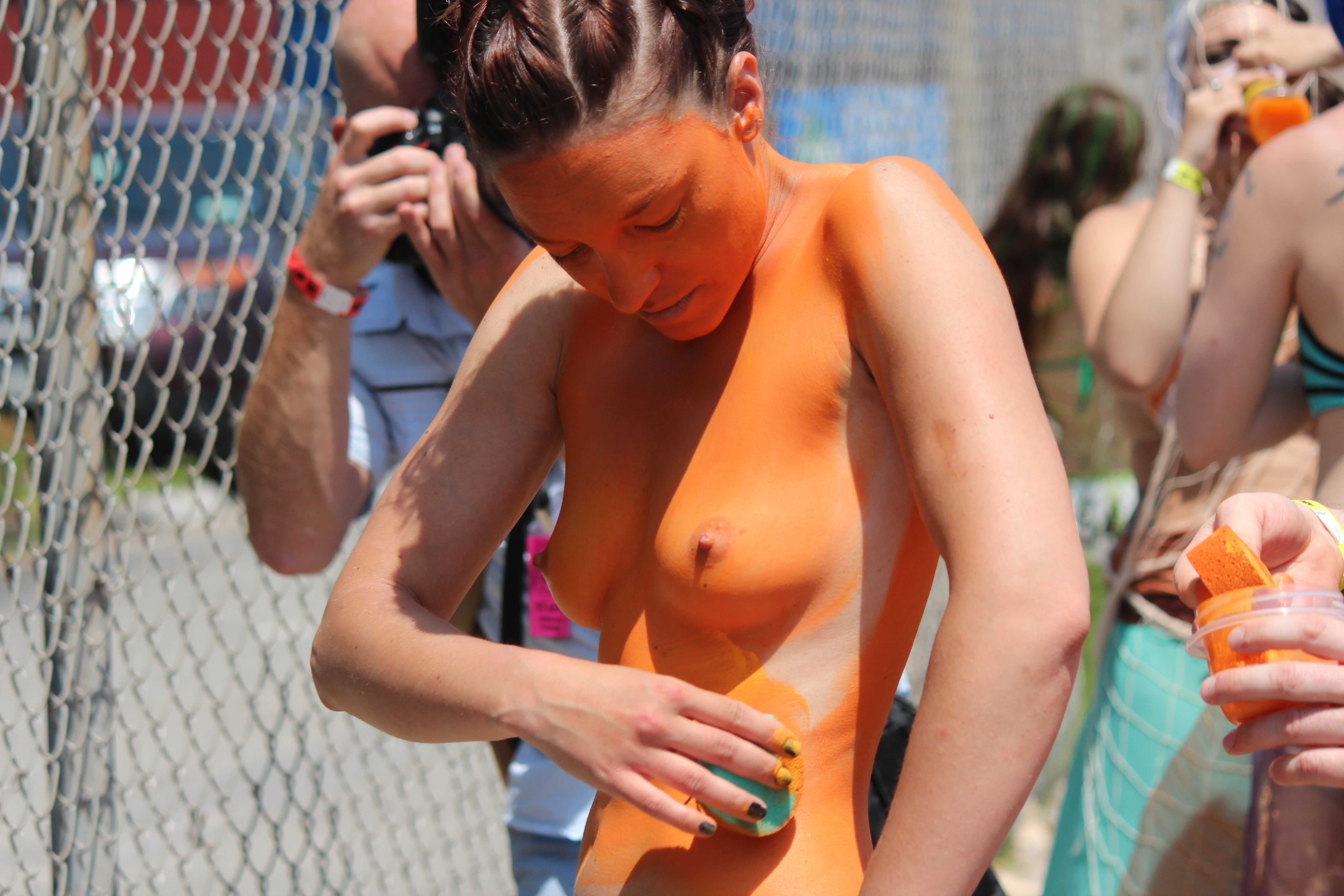 Woman painting herself orange at Coney Island Mermaid Parade 2013.